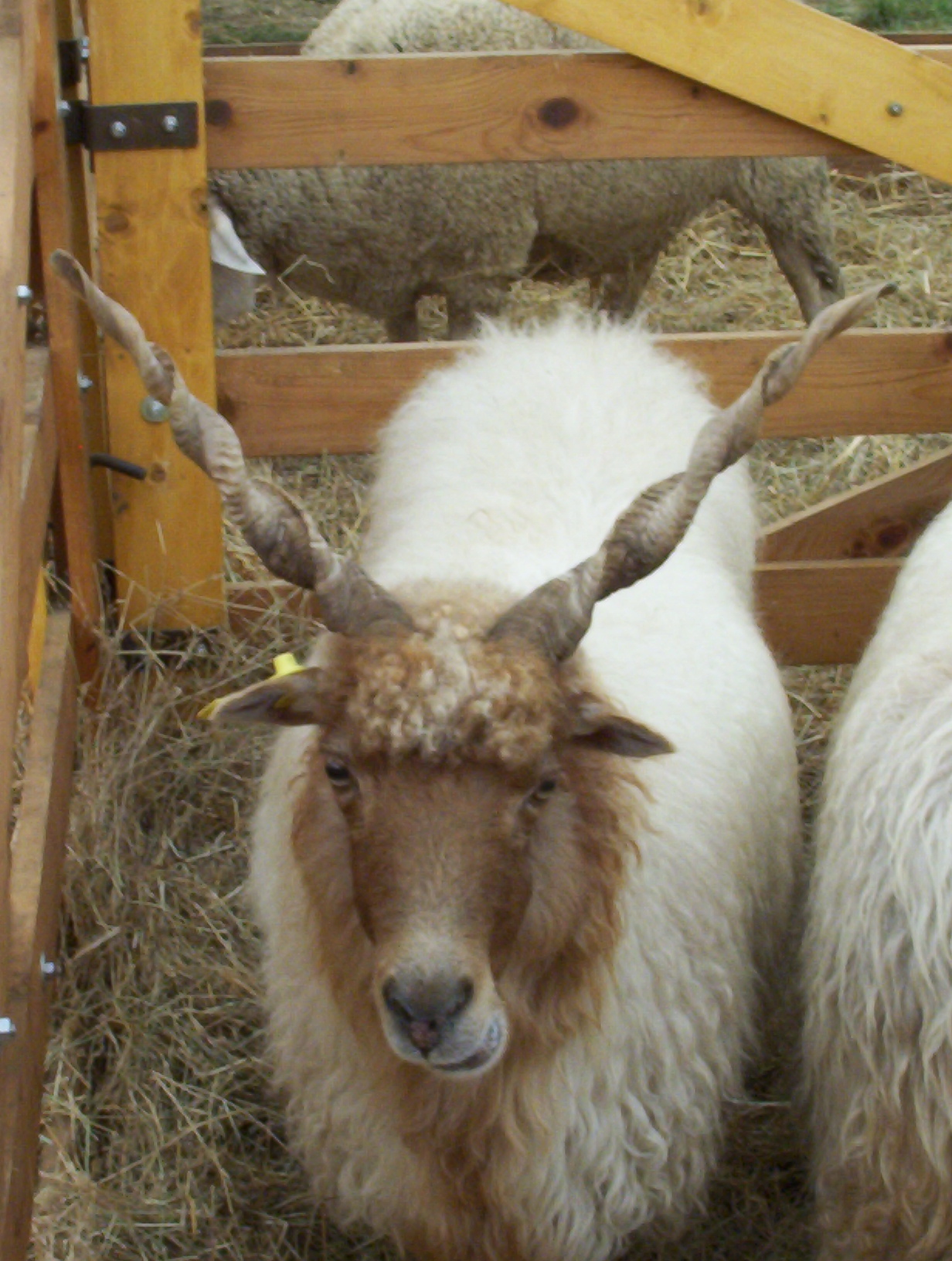 Hungarian racka sheep. This image is in the public domain.